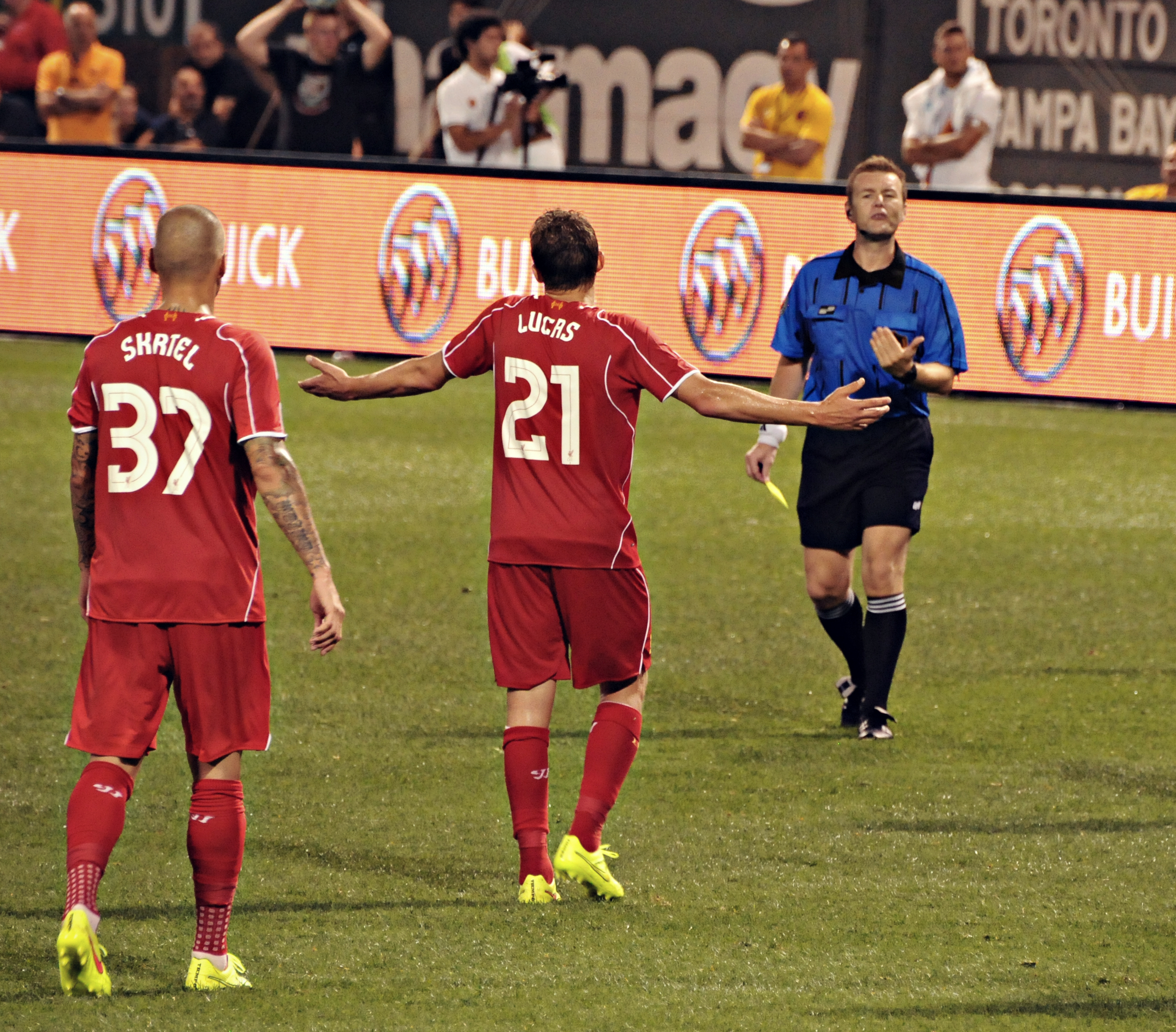 Liverpool FC v/s Roma @ Fenway Park (Boston, Massachusetts)